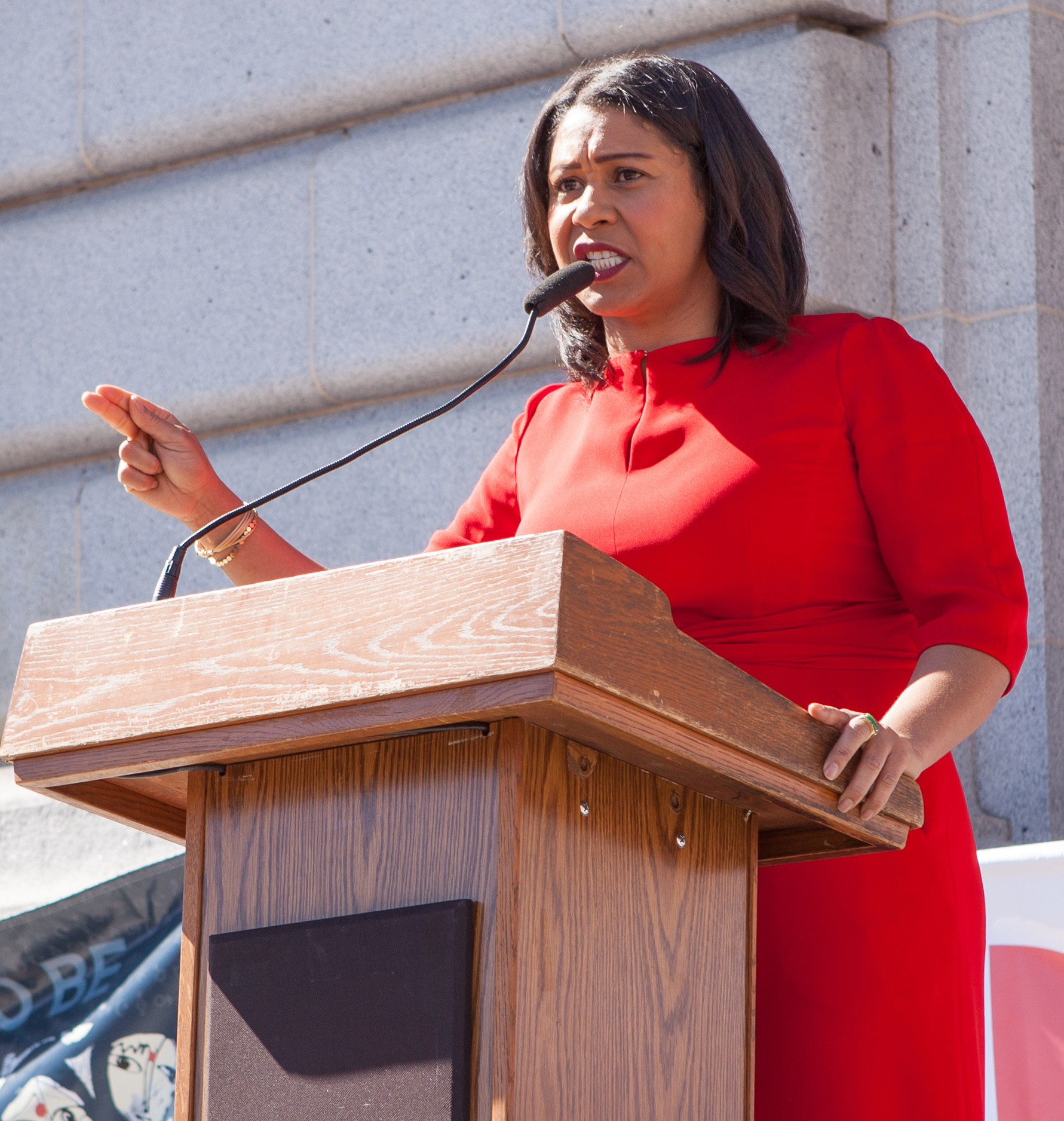 San Francisco Board of Supervisors president London Breed speaks at Day Without a Woman San Francisco.